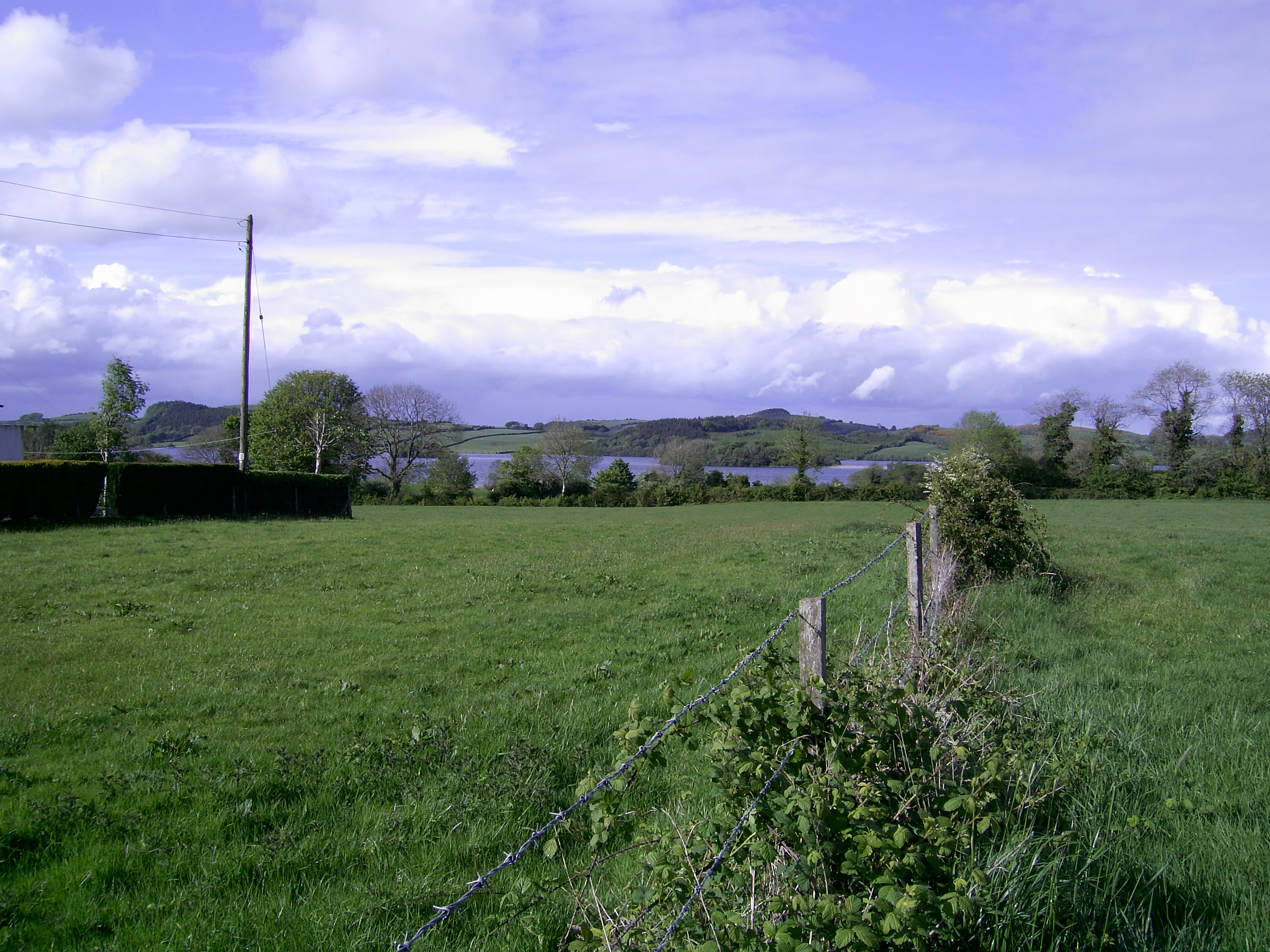 Lough-Lene & Turgesius Island